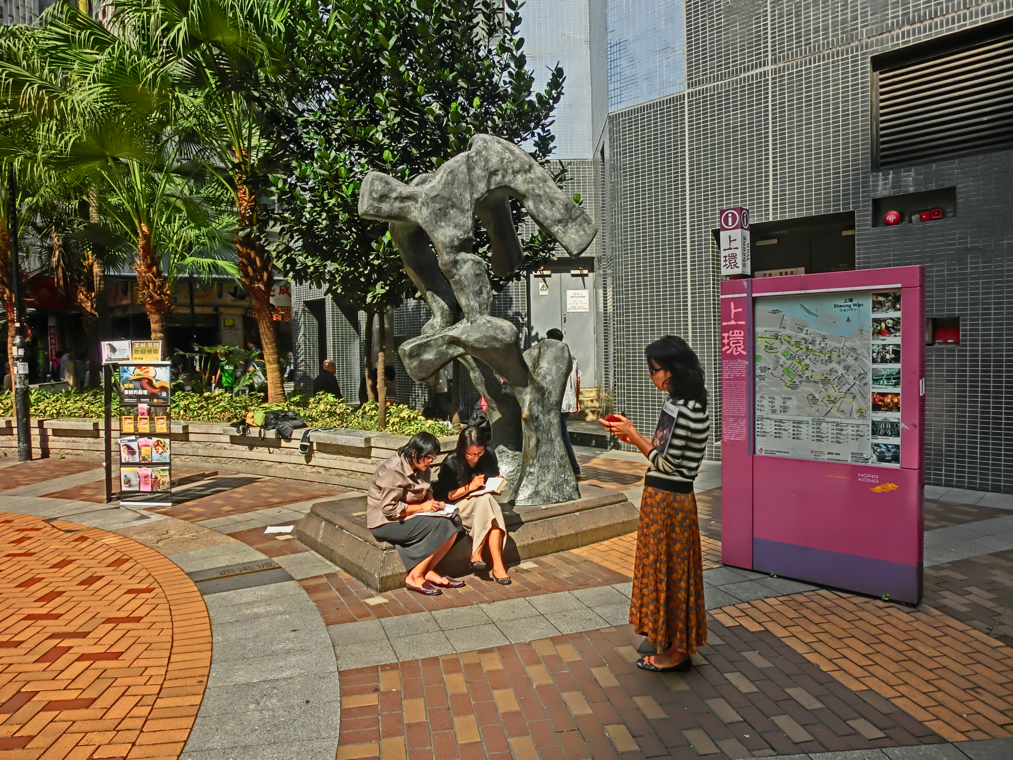 上環, Sheung Wan in 2013